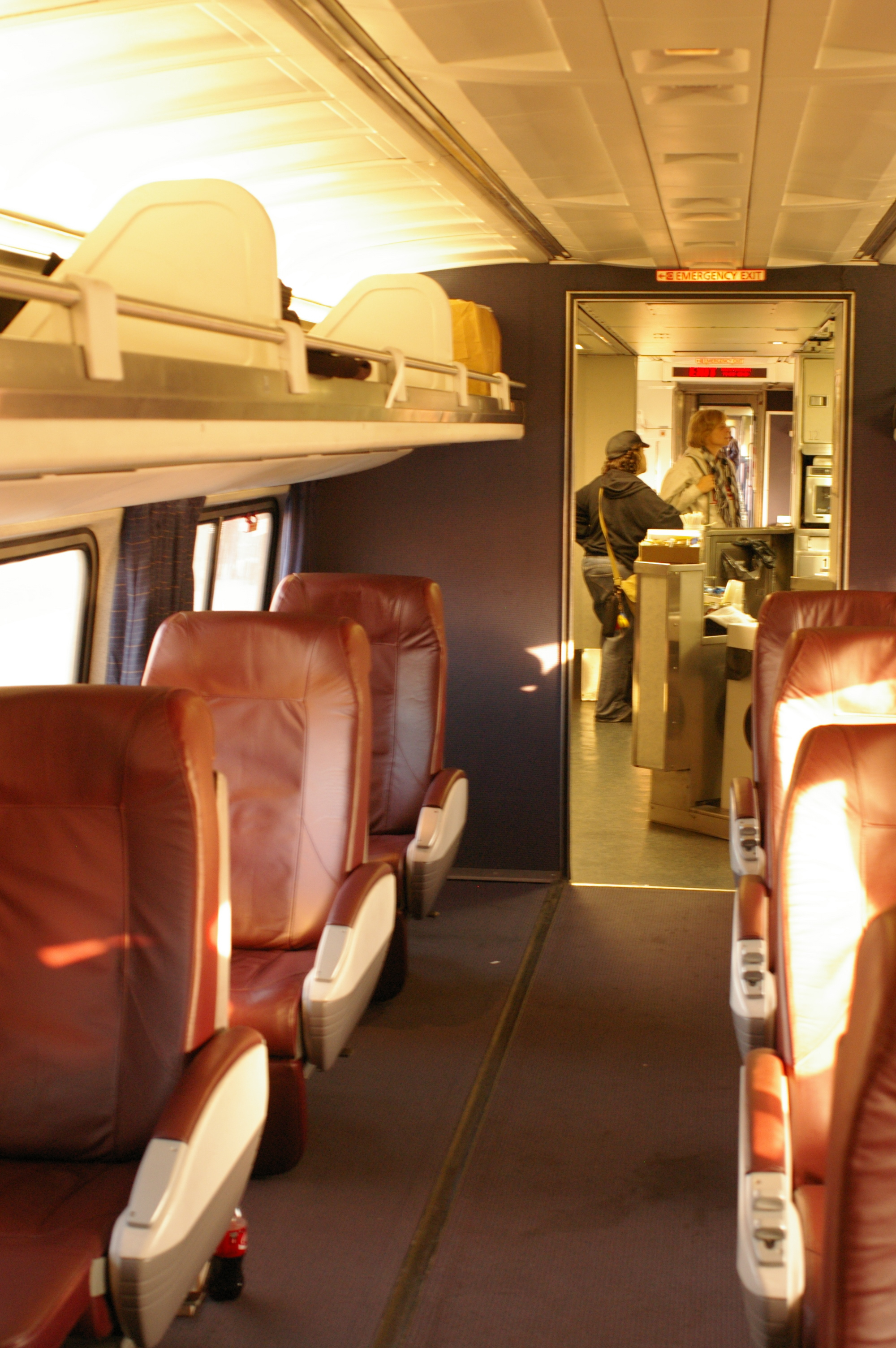 Interior of the business class / cafe car on the Lincoln Service/Ann Rutledge (train 303/313) while laying over at St. Louis in November 2008